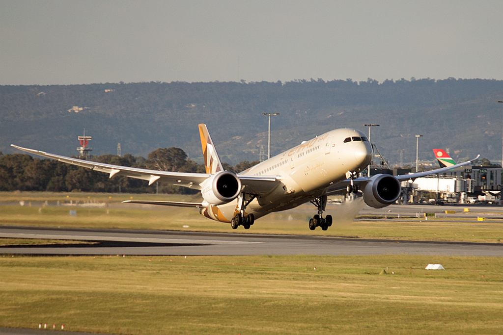 Boeing 787-9 Ethihad Airways A6-BLI PER